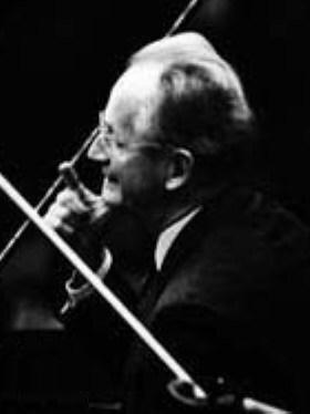 Wilhelm Kempff